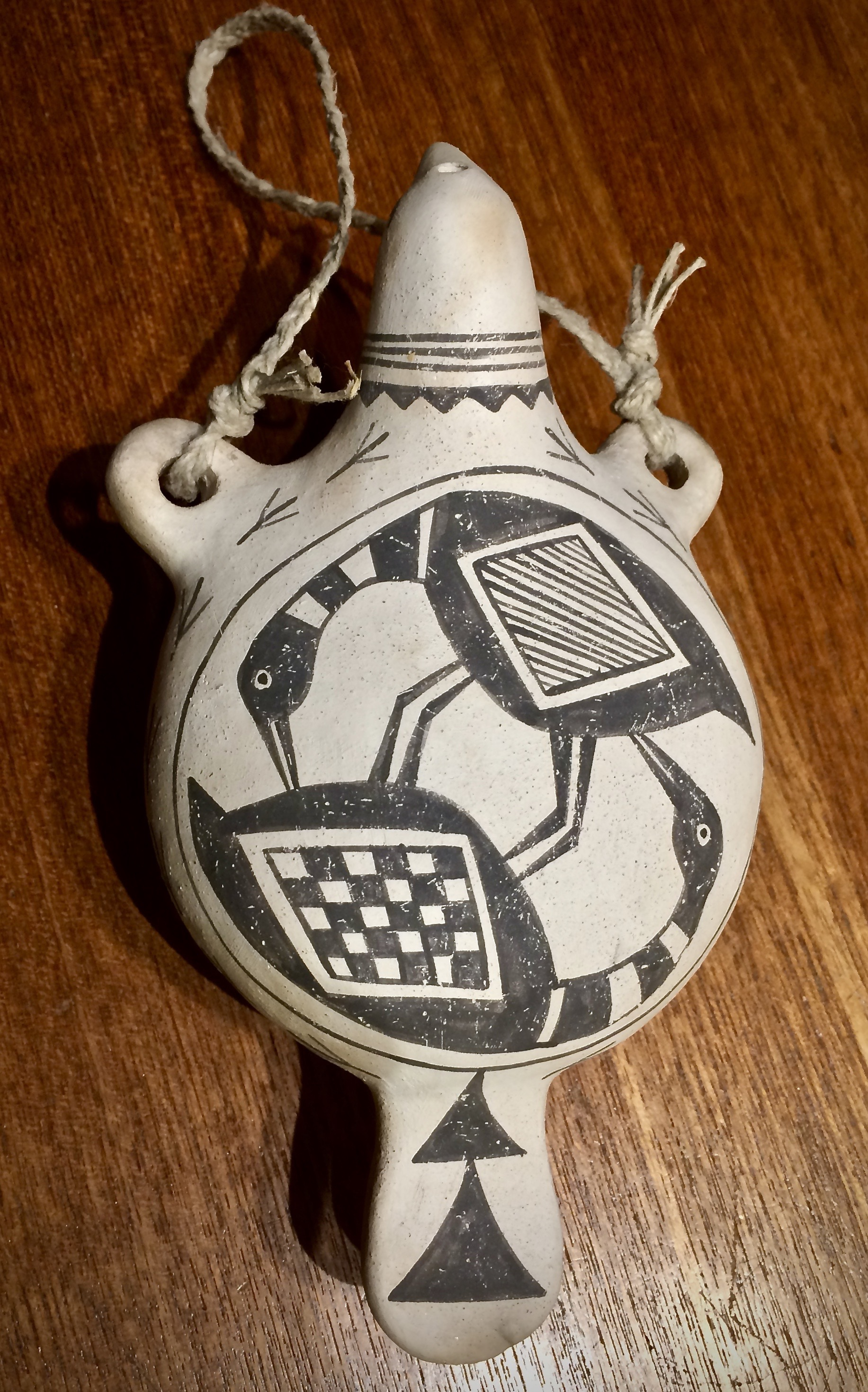 Classic Mimbres birds design, from our personal collection. Bought from the artist at Santa Fe Indian Market years ago. -- and I see we now have a photo for his article!